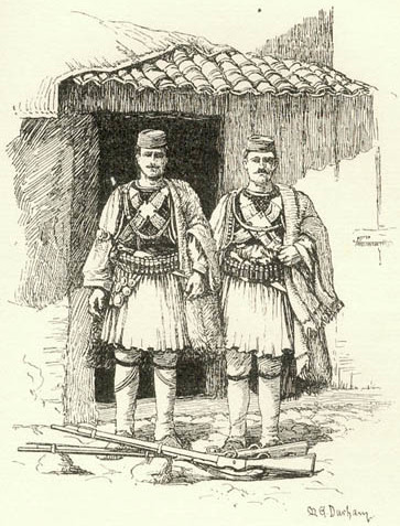 Tosk Albanians wearing traditional clothing from southern Albania.